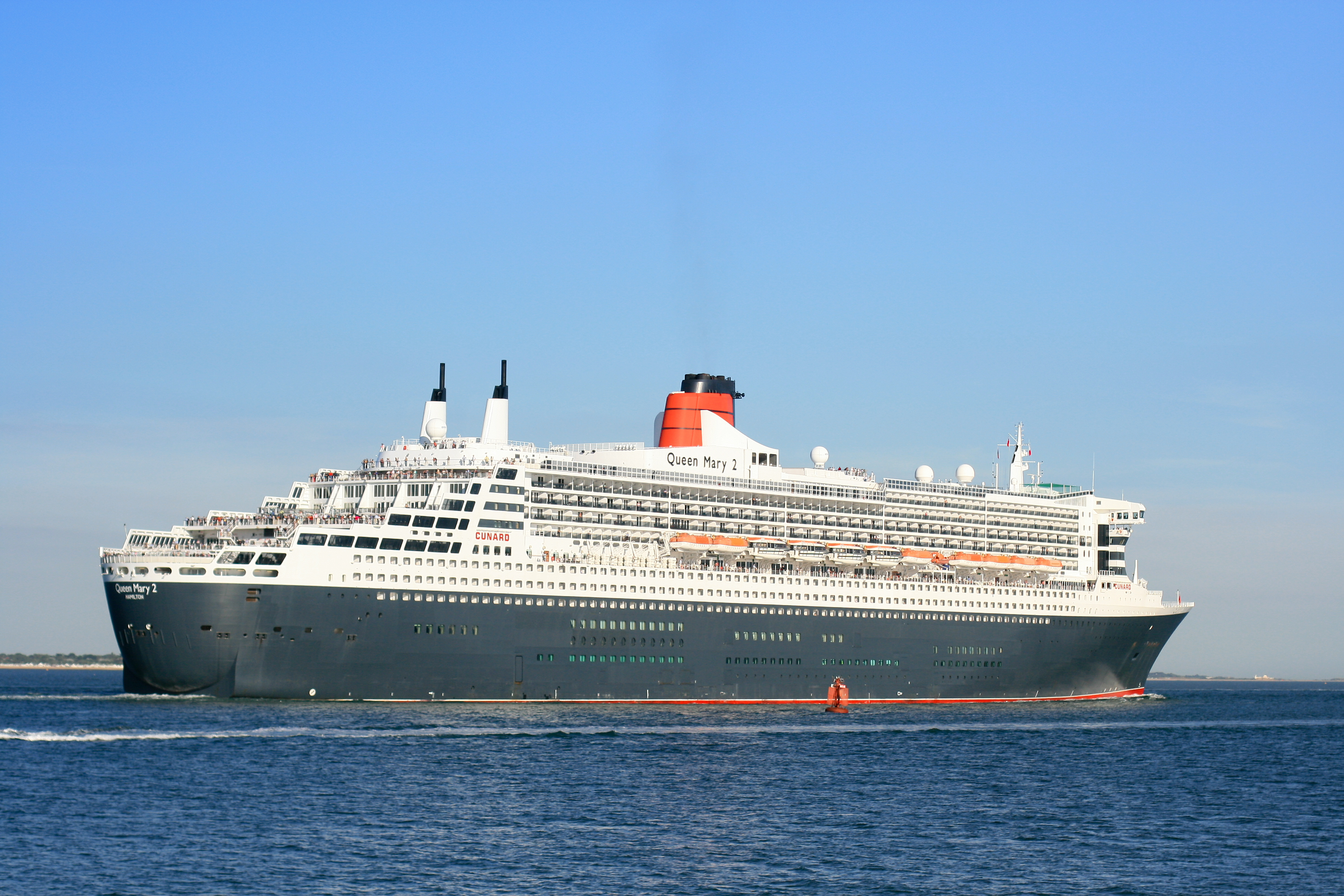 Cunard transatlantic liner Queen Mary 2 passing the Black Jack navigational buoy at the southern tip of Southampton Water outbound from Southampton to New York 2nd Sept 2013. Wikipedia editors are reminded that the copyright remains with the photographer, and that the terms of the Creative Commons licence CC-BY-SA-3.0 that allow editors to reuse this image apply to Wikipedia editors also, as they do to other re-users of this image. Breaches of the licence terms are not only unlawful, but are also antisocial, in that breaches discourage photographers from making their images freely available to everyone without payment. Wikipedia re-users are also reminded of the license terms that derivatives of this image should not imply that the adaptation is endorsed or approved by the author or copyright holder. Neither should derivatives be presented as the creation of the author or copyright holder, while clearly stating that the adaptation is a derivative of the original. Attribution online should be in this format Brian Burnell. On the printed page, a simpler form is acceptable - example: "Image: Brian Burnell".